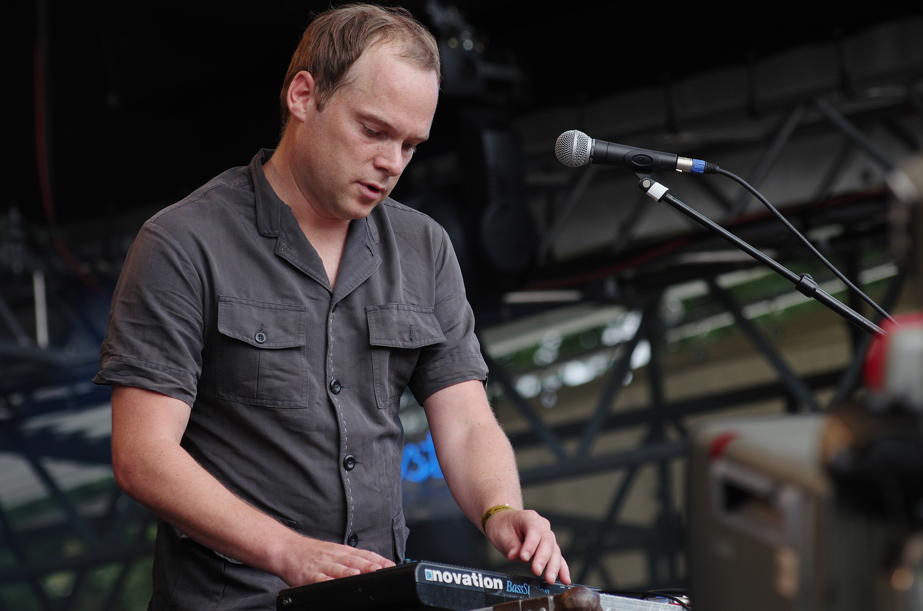 Mense Reents of Die Goldenen Zitronen at Haldern Pop 2013